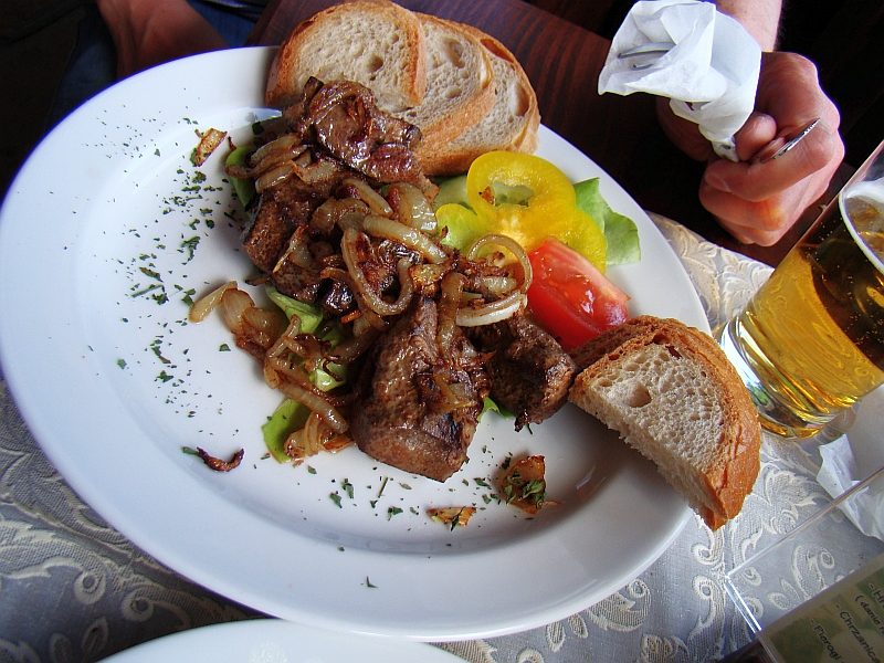 Category:Cuisine of Sanok